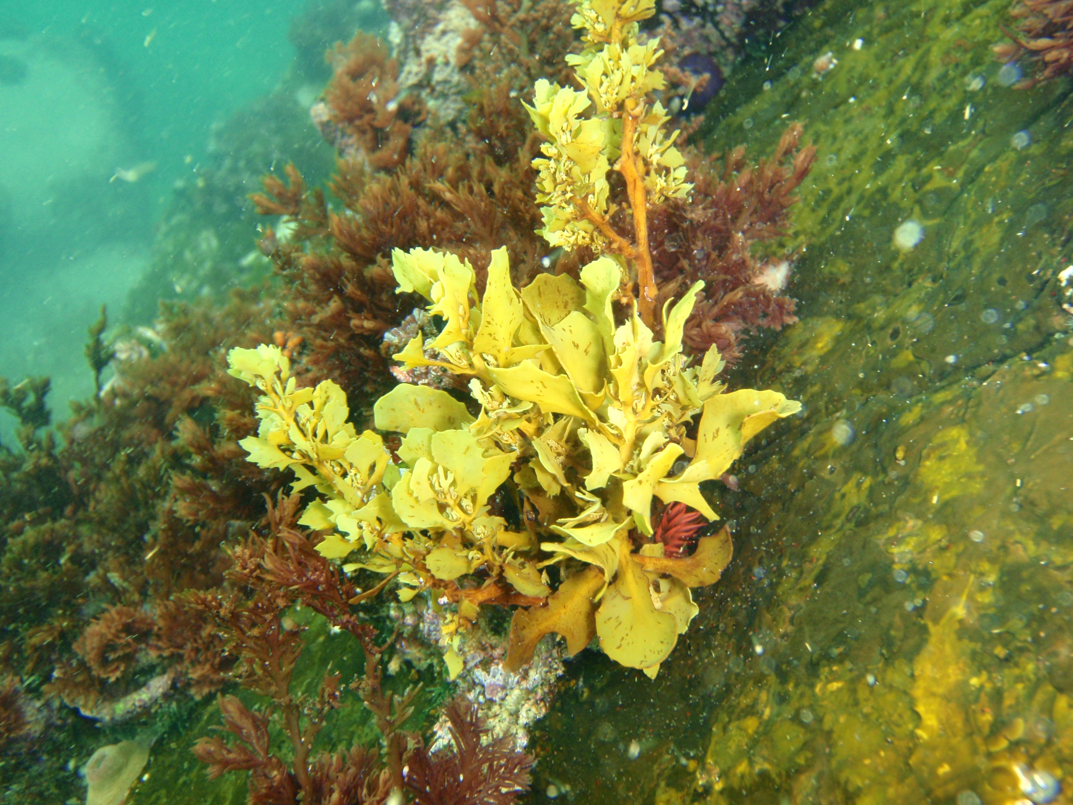 Seaweed at Lorry Bay, south of Gordon's Bay on the east side of False Bay